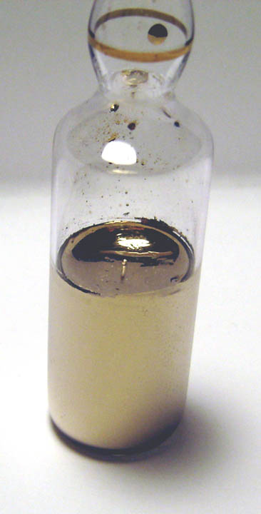 Cesium metal ampoule from the Justin Urgitis collection.